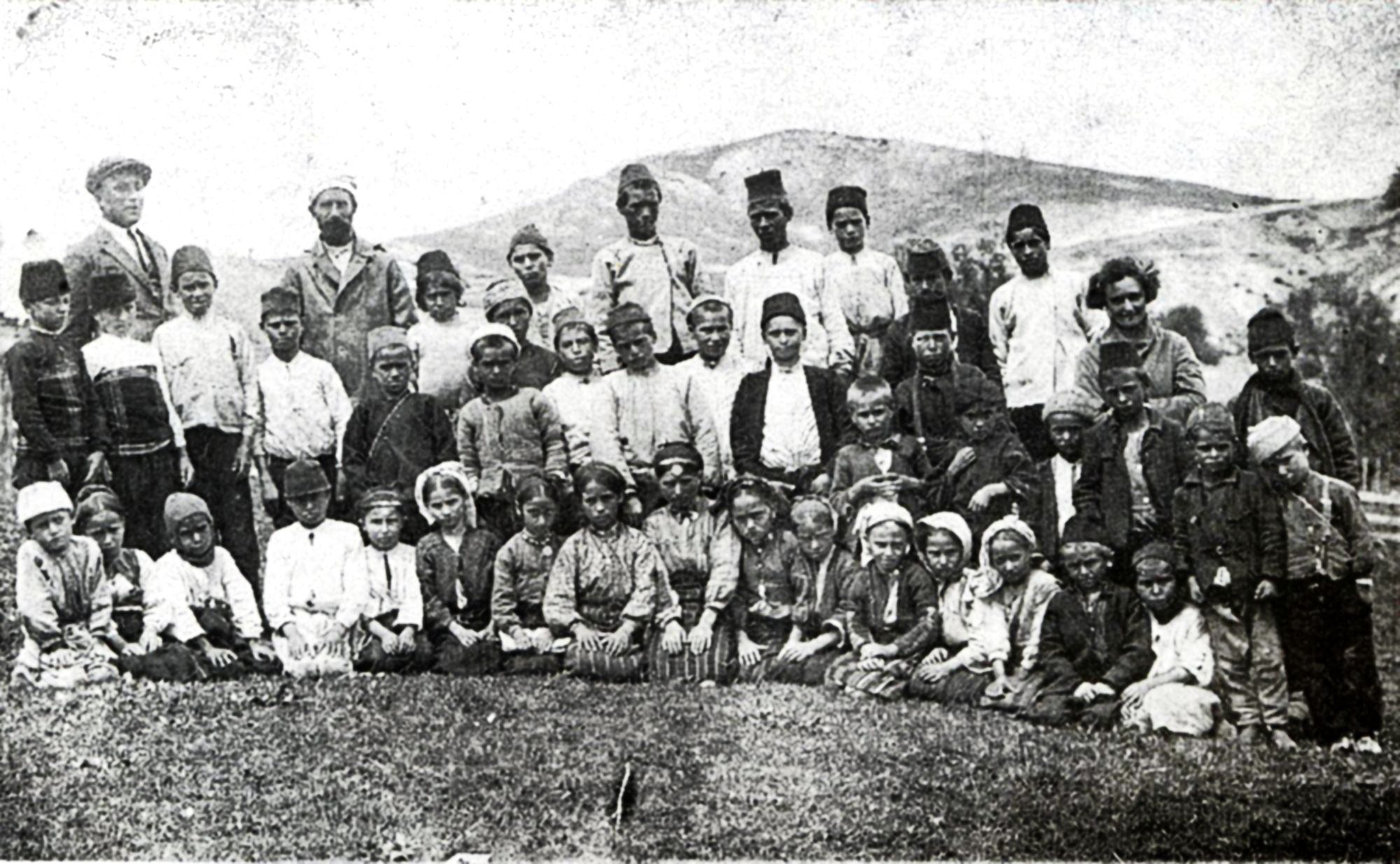 Second anniversary of the opening of the school in the village of Grashevo - 1927